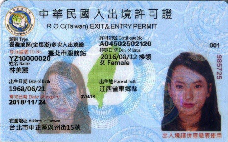 Specimen of Multiple Entry and Exit Permit for Kinmen, Penghu and Matsu